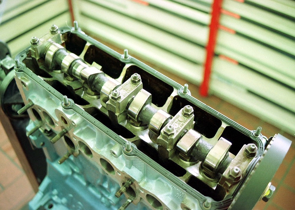 4-cylinder 1.8l 8-valves engine showing the camshaft. The engine is a Volkswagen "RP" type.